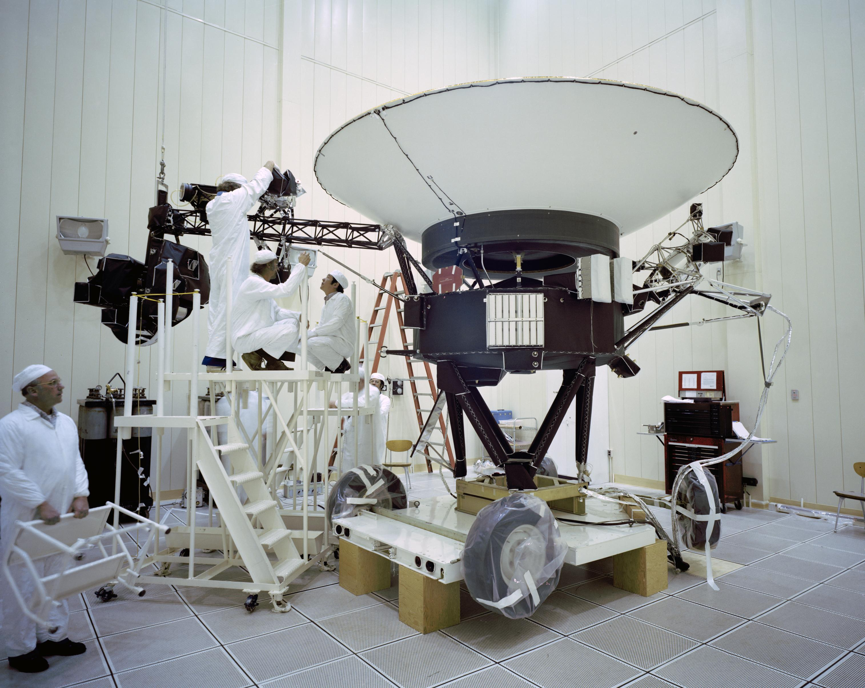 NASA's Voyager 2 Testing